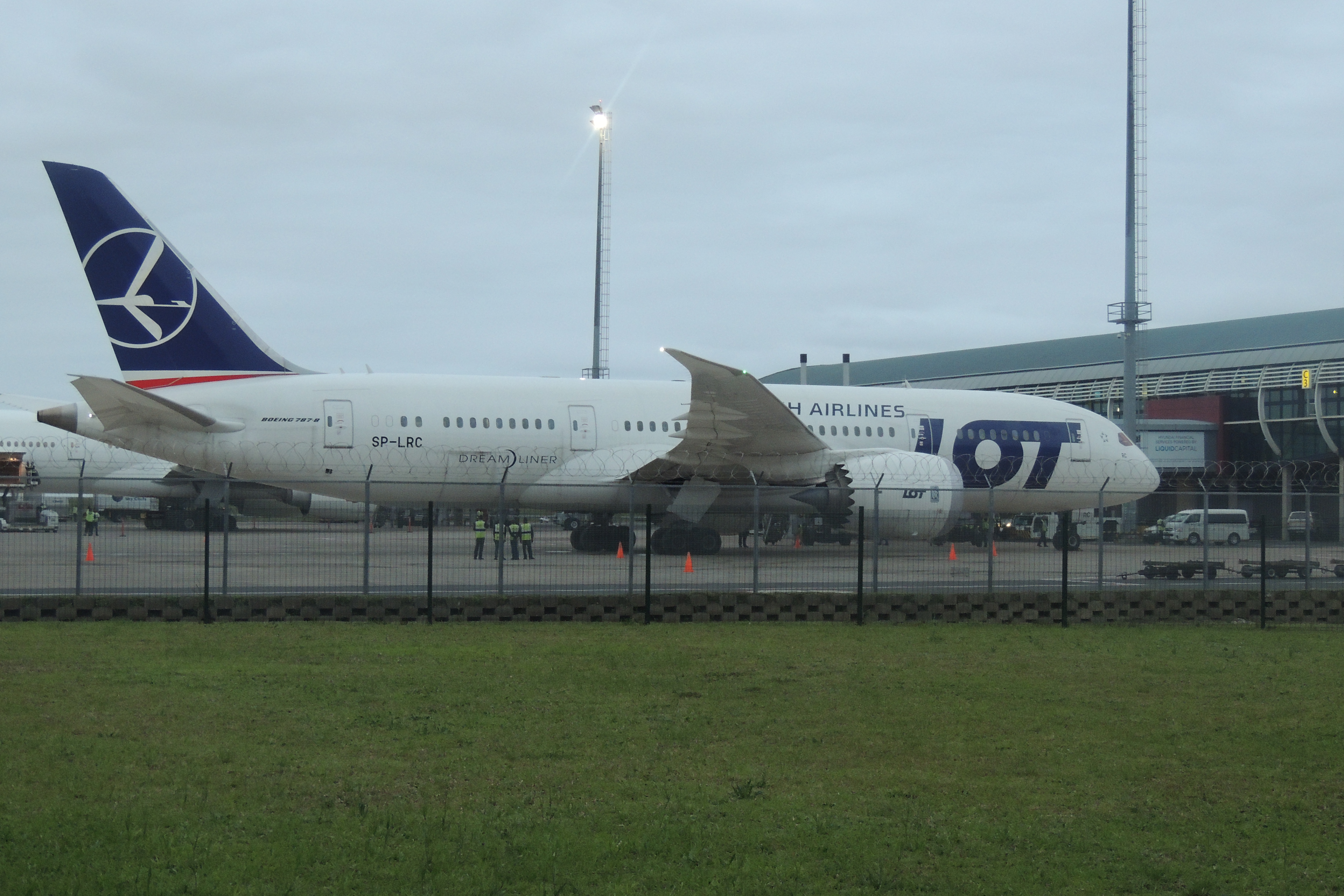 Lot Polish Airlines first service to King Shaka International Airport